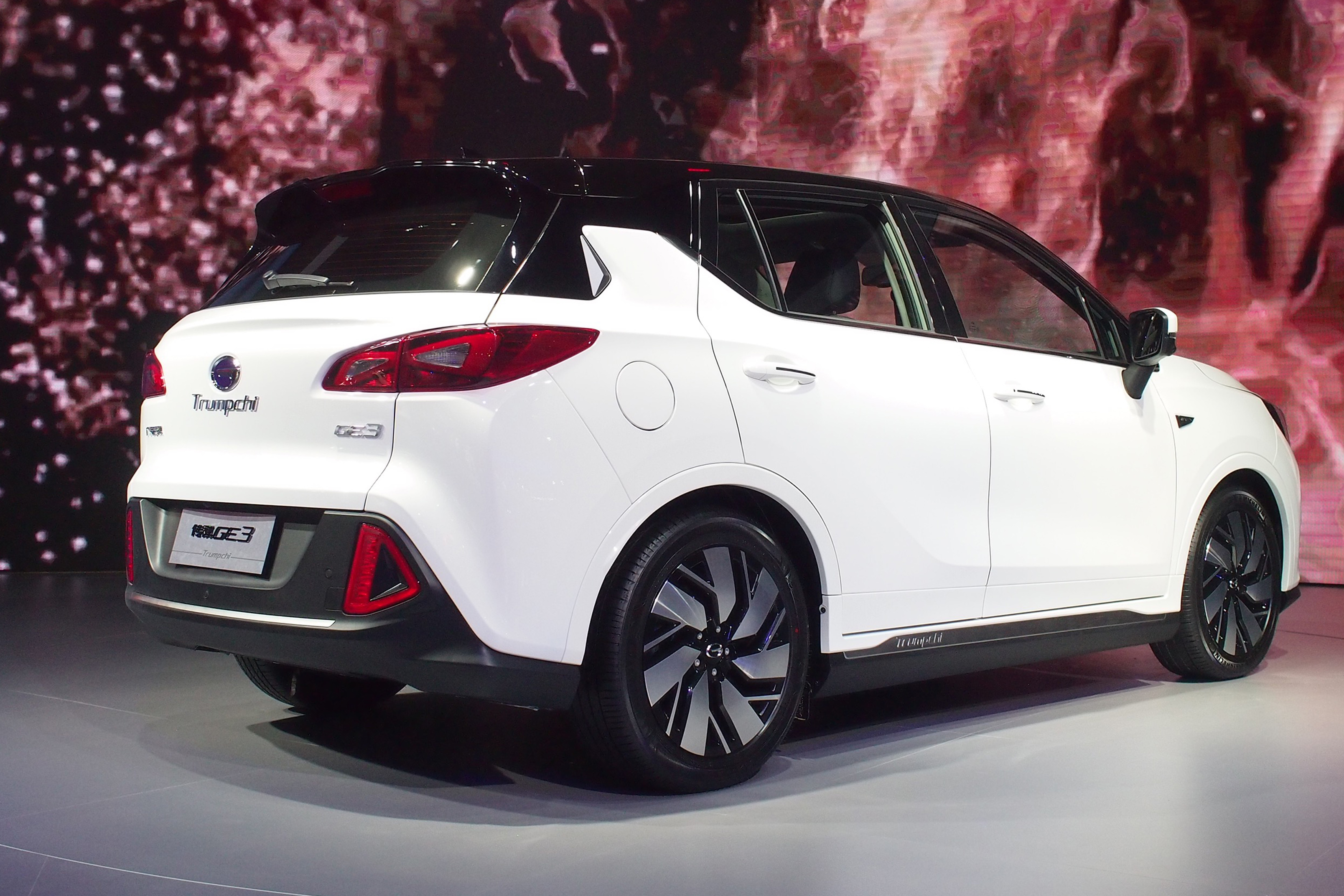 Trumpchi GE3